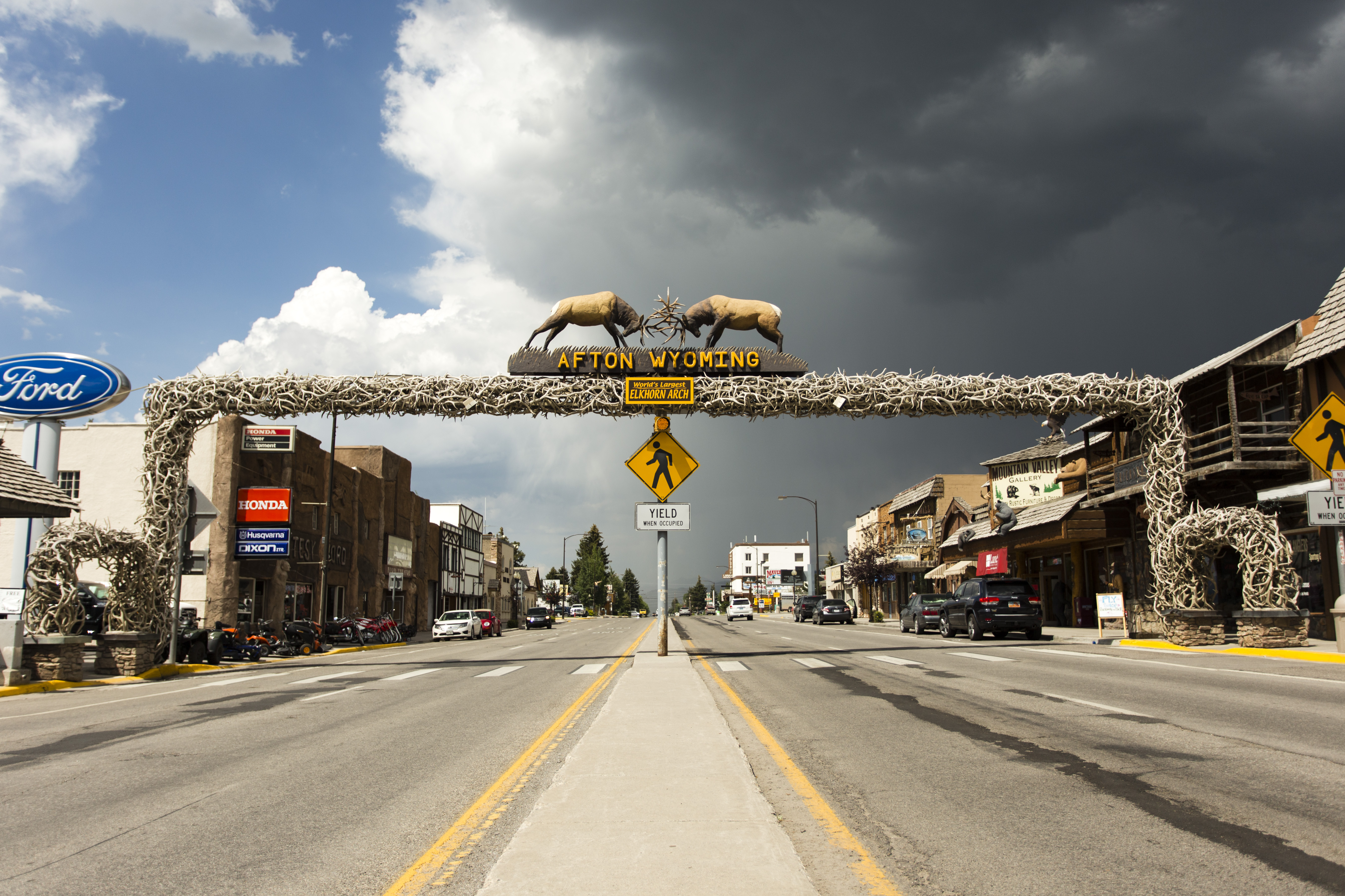 Photograph along US 89 going through Afton, Wyoming looking at the elk horn arch. Photograph was taken facing north, handheld, standing on the center median on the 31st of July 2013 at approximately 2:13 pm local time.